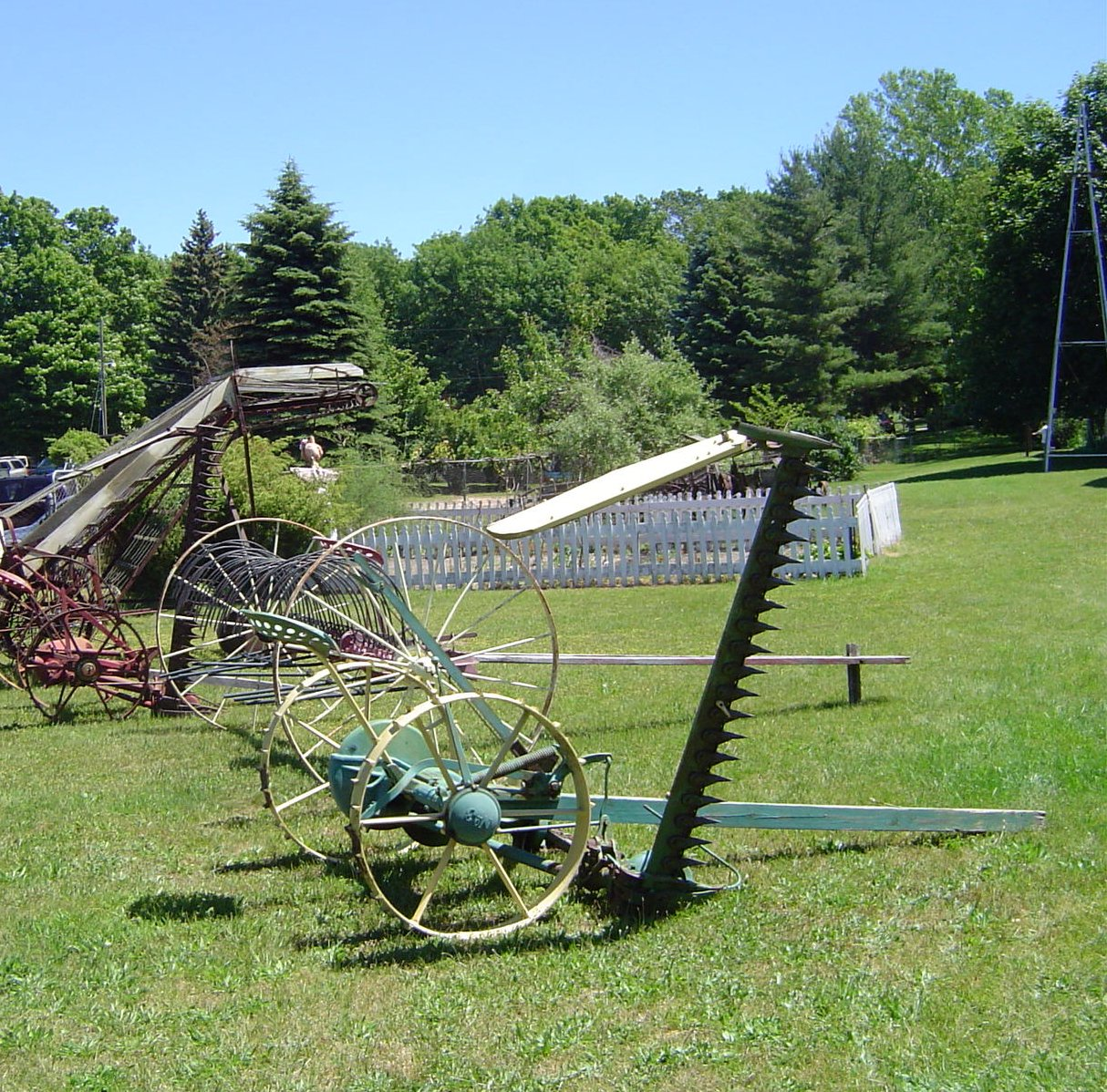 White Pine Village Nineteenth Century farming. Nineteenth Century agricultural impliments. Took picture myself 2005 in Ludington, Michigan.